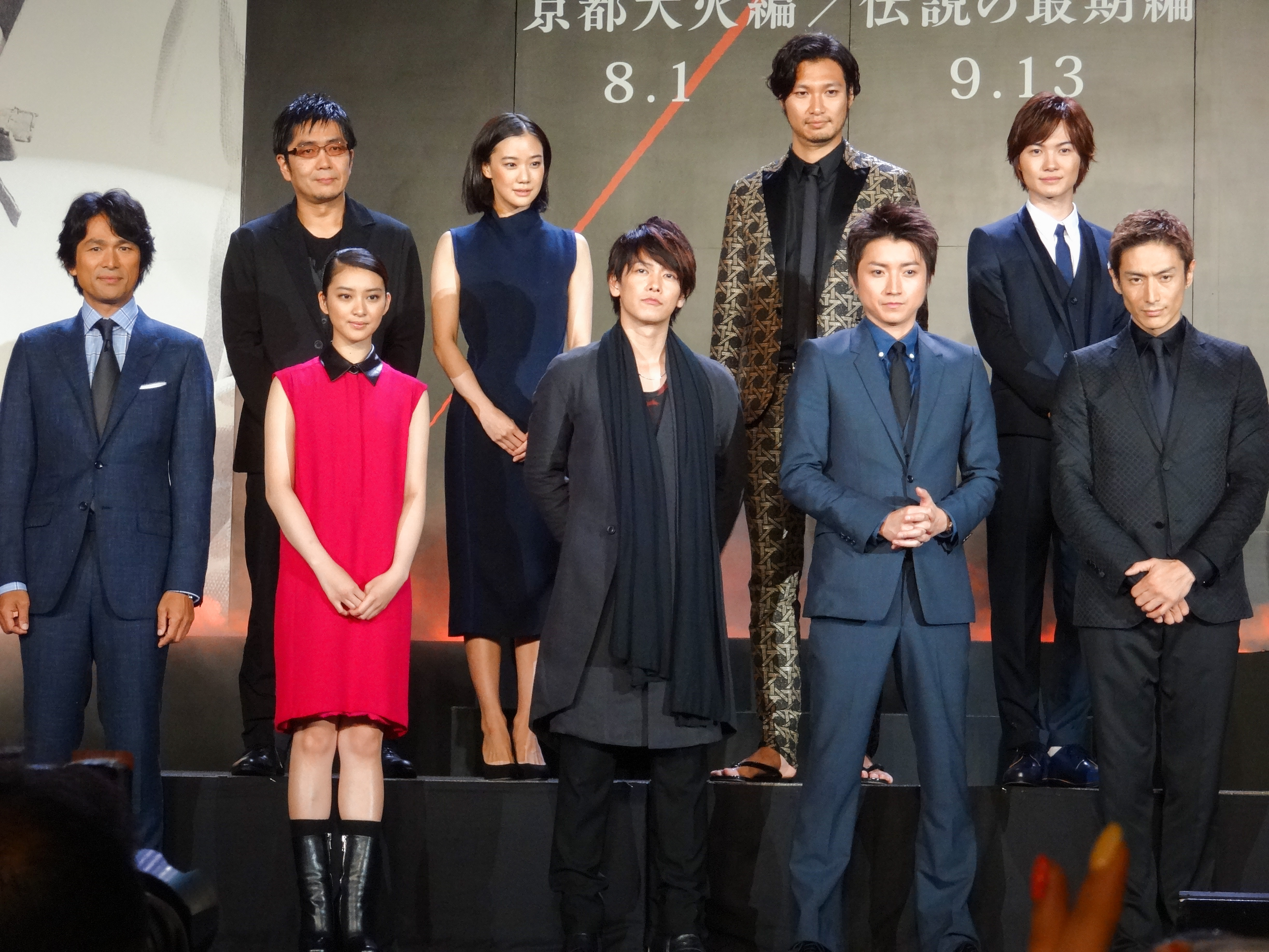 Rurouni Kenshin: Kyoto Inferno / The Legend Ends, Red Carpet Premiere るろうに剣心 京都大火編/伝説の最期編 レッドカーペット